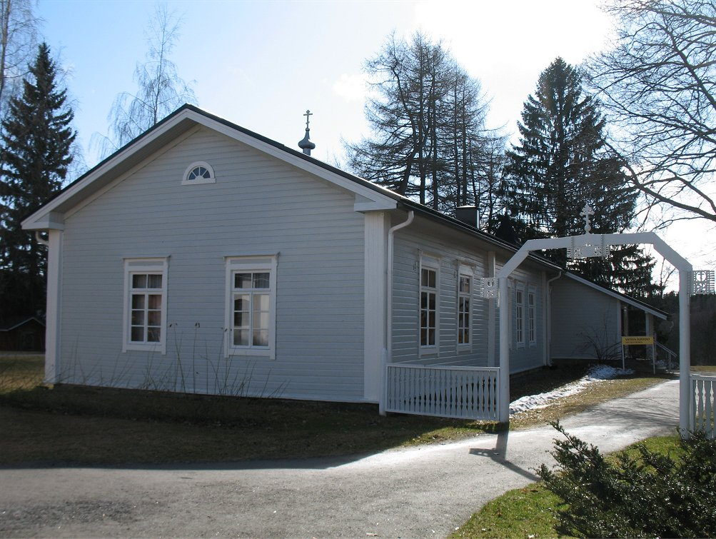 The old church of the New Valamo monestry, in Heinävesi, Finland. The church structure was based on two barn houses which were connected in 1940.